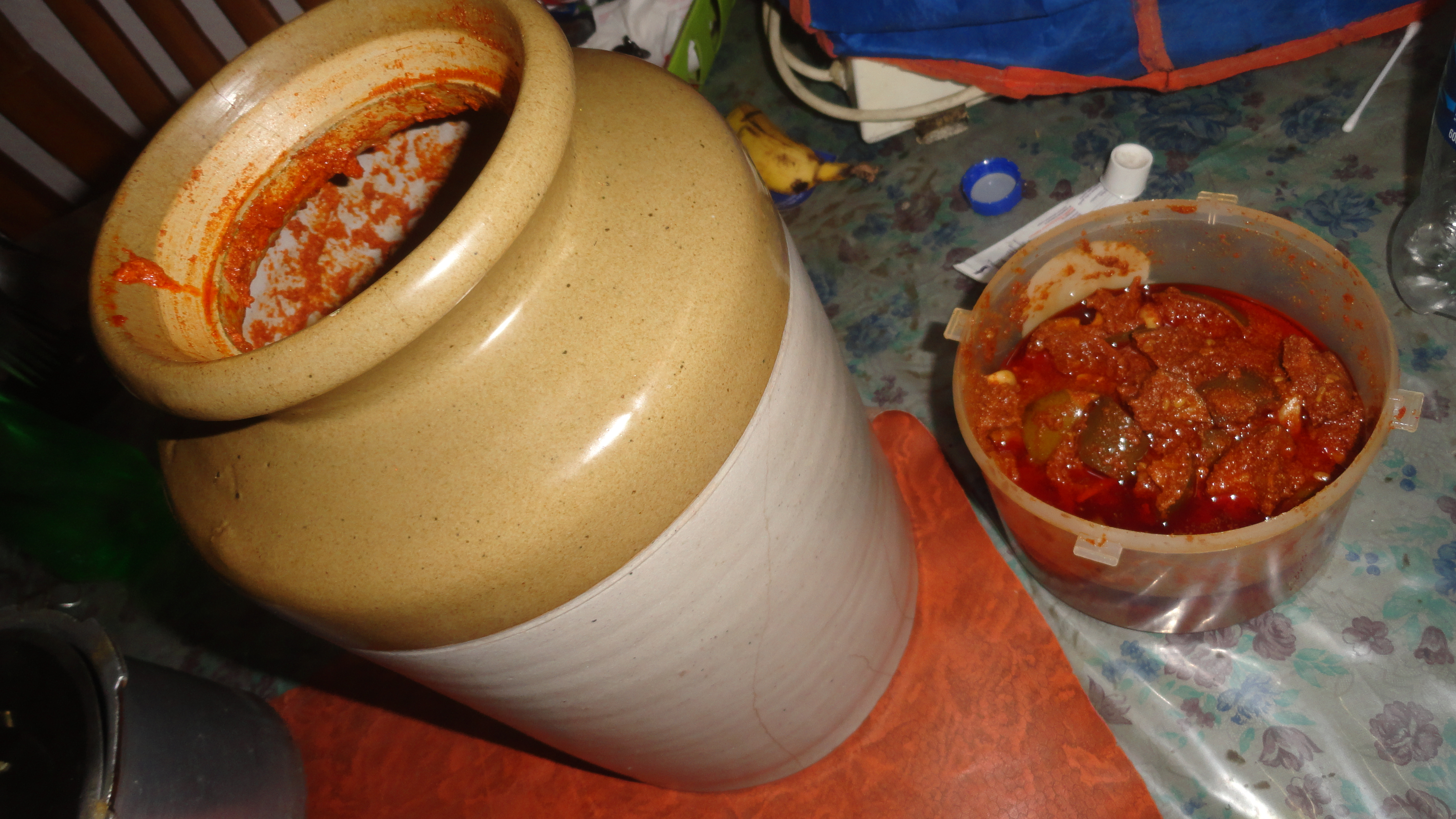 Aavakaaya...Mango pickle